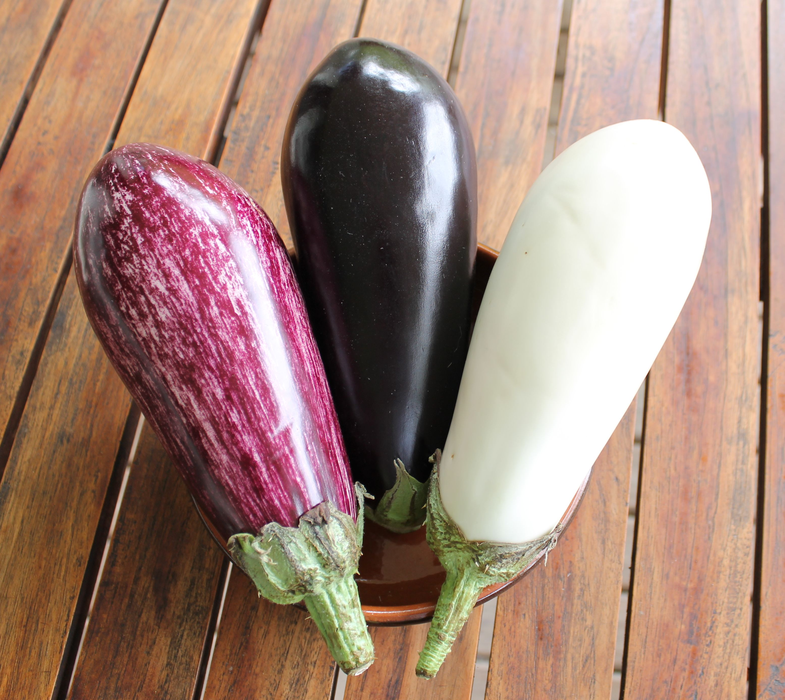 Eggplants: Graffity, Natural, White